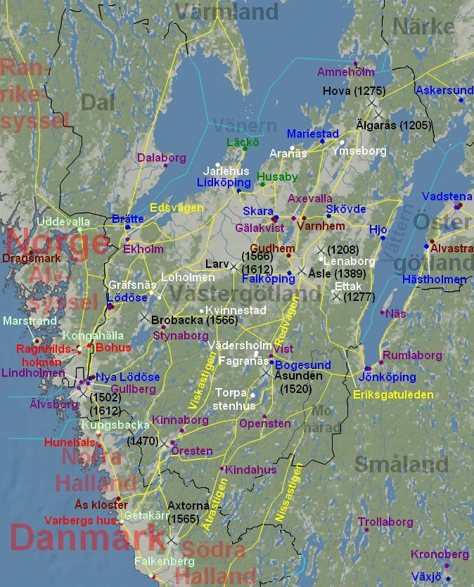 Map showing medieval Västergötland province, Sweden (1200-1612), all castles and cities on the map did not exist at the same time. Purple: Swedish-state castles (riksborgar). White: Swedish private castles (in selection). Dark blue: Swedish cities. Red: Nowegian and Danish castles. Light green: Norwegian and Danish cities. Green: Bishops castles (in selection). Brown: Cloister. Black: Battleground (with year in brackets). Yellow: Roads